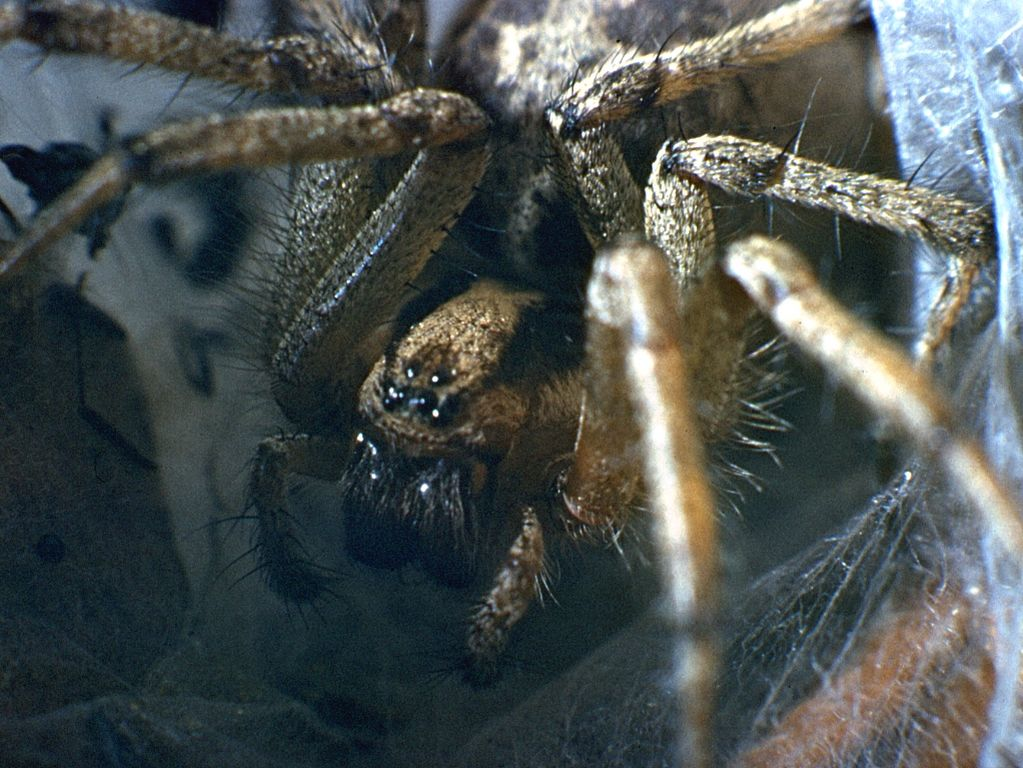 Agelena orientalis - female in La Thuile, Aosta, Italy